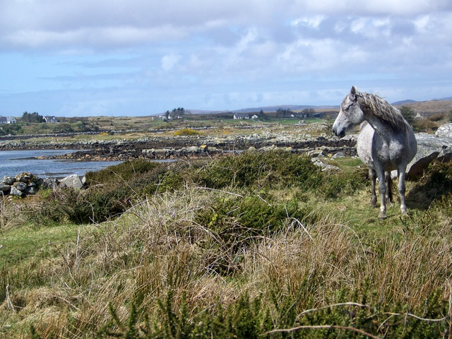 Connemara Pony, Inis Ni/Inishnee Most Connemara families had a work-horse in the past, a beast of burden that they took for granted. Only in the early 20th century were Connemara ponies recognised for their exceptional qualities. Hardy, companionable, resilient yet pliant, they are found exclusively in this harsh terrain. Their origin is uncertain. Probably they were a crossbreed of a native Celtic horse and Spanish-Arabs imported from Galicia in north-western Spain in the Middle Ages. Their qualities derive also from the particular combination of climate and terrain and the rigorous genetic selection that such an environment demands. Pasture in Connemara is scarce and the ponies eat very little of it. Instead they feed on the salt-tolerant grasses and seaweeds on the seashore. In spite of their study frame, the ponies are naturally elegant and have become popular everywhere for riding and showjumping.